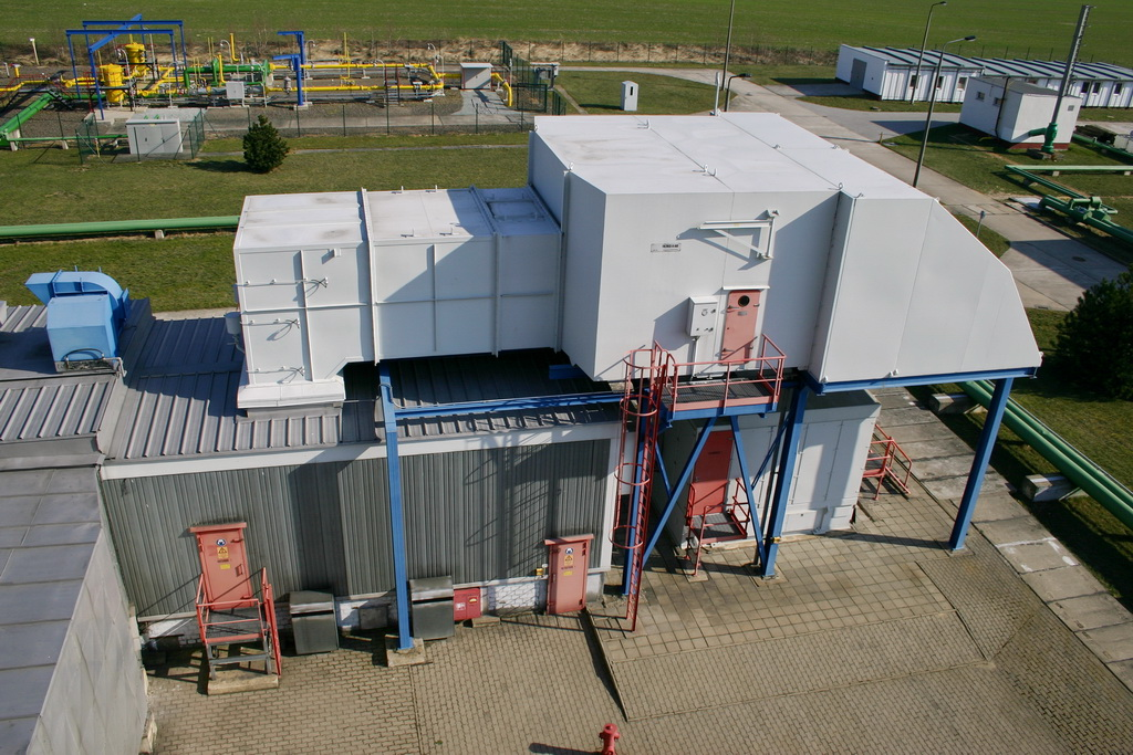 General Electric MS6001B gasturbine A4 at the powerplant Ahrensfelde